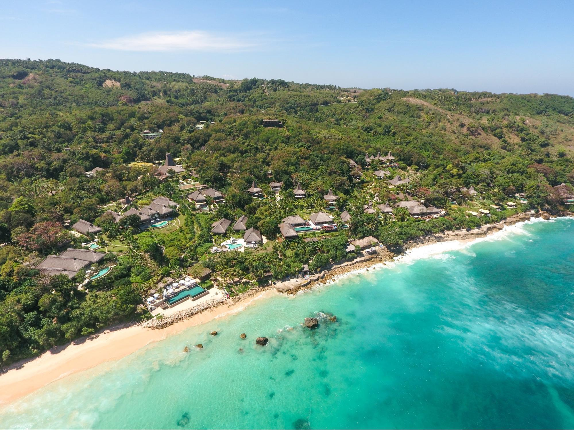 Aerial shot of Nihi Bumba Resort